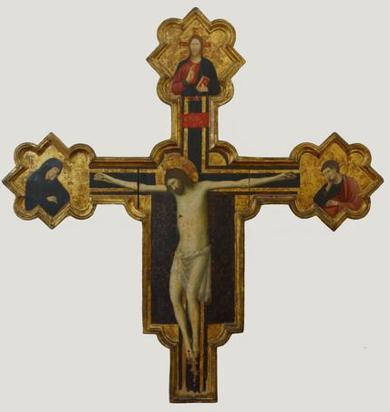 Painted Cross by Giovanni da Rimini (1300-1305)